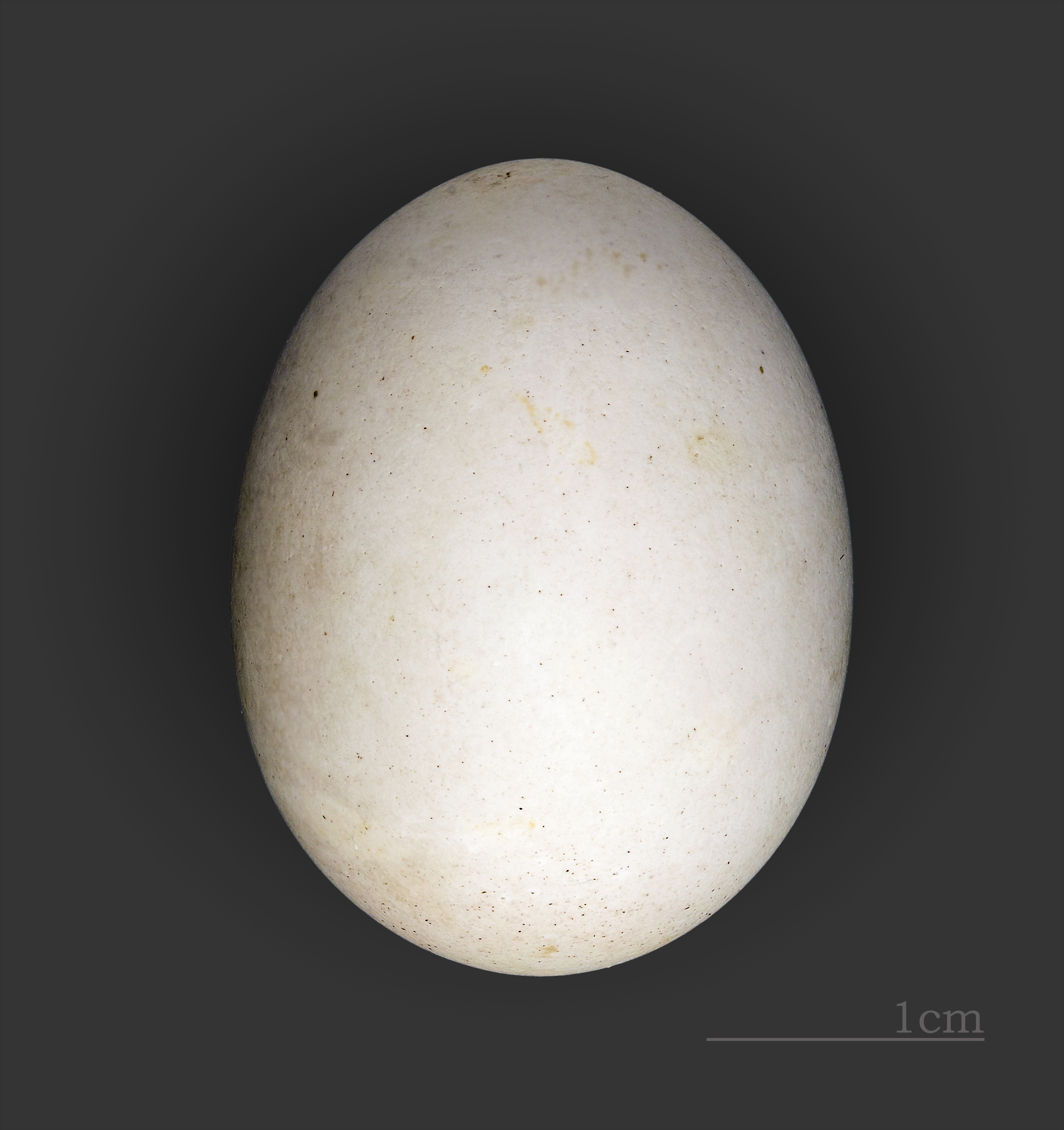 Egg of Boyd's shearwater. Jacques Perrin de Brichambaut.